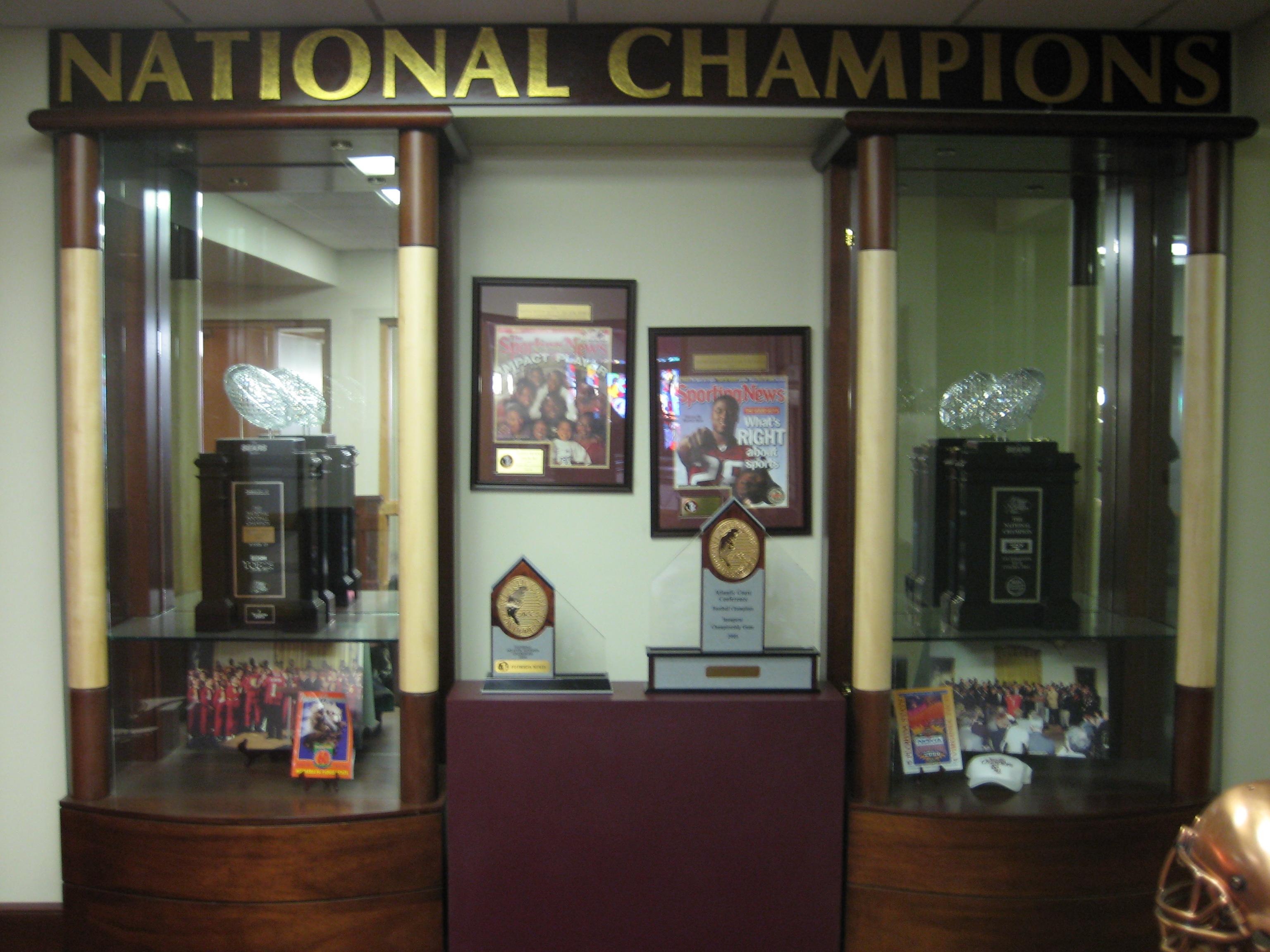 FSU's two National Championships:1993 and 1999